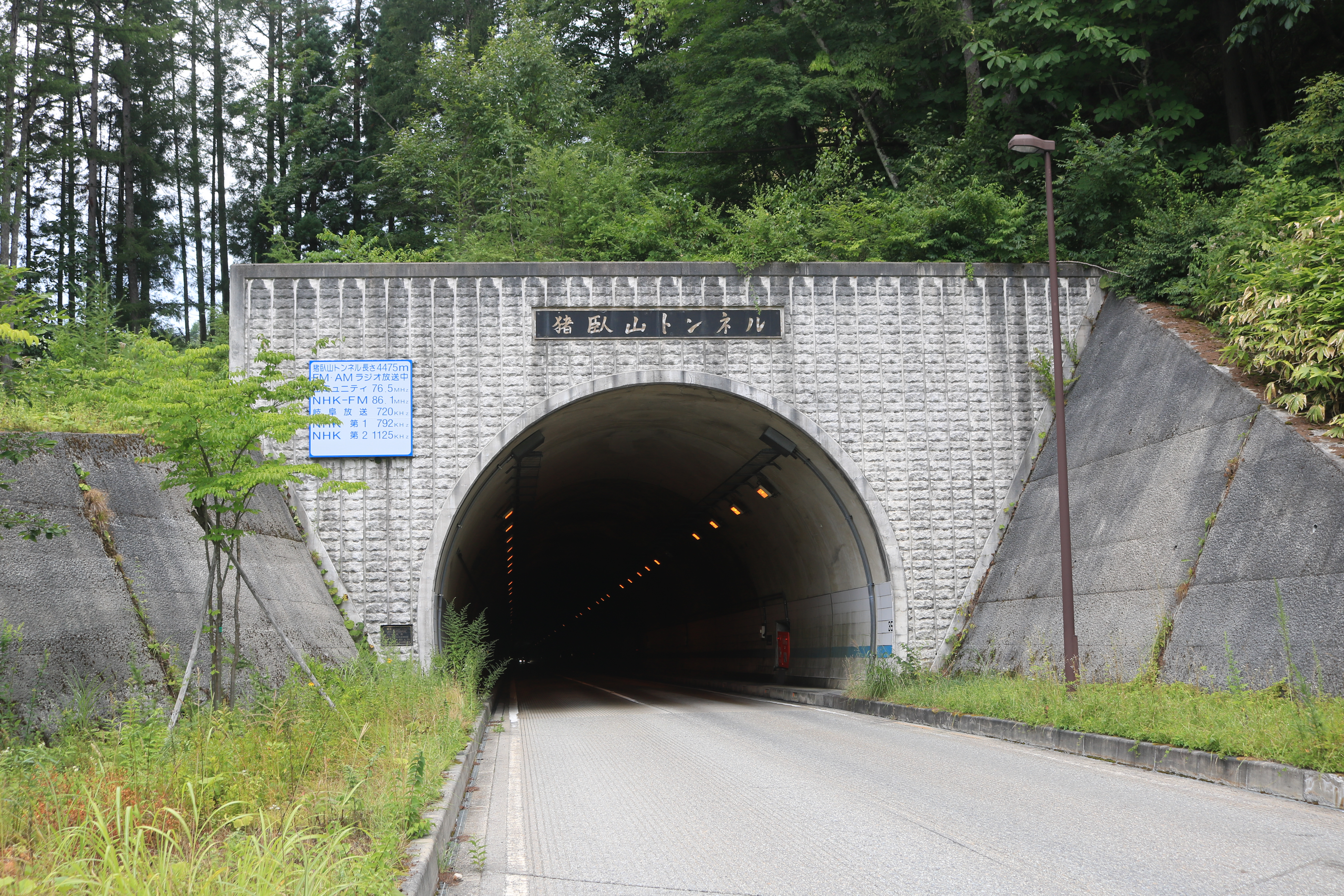 Ibushiyama Tunnel on Gifu Prefectural Road Route 90 (Furukawa-Kiyomi line) in Unehata, Furukawacho, Hida, Gifu Prefecture, Japan. Canon EOS Kiss X8i